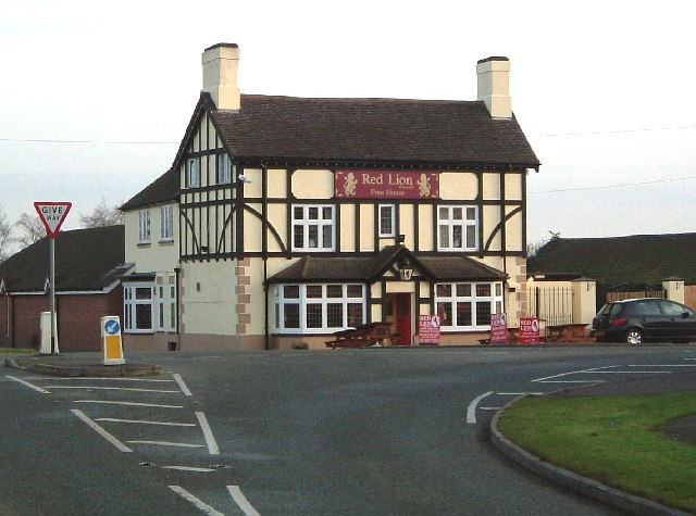 The Red Lion, Pinwall. The Red Lion stands on the crossroads at Pinwall. This photo was taken from the B5000 (which leads to Grendon & Polesworth), the B4116 crosses left (Sheepy Magna) to right (Atherstone) and an unclassified road goes straight ahead to Ratcliffe Culey.